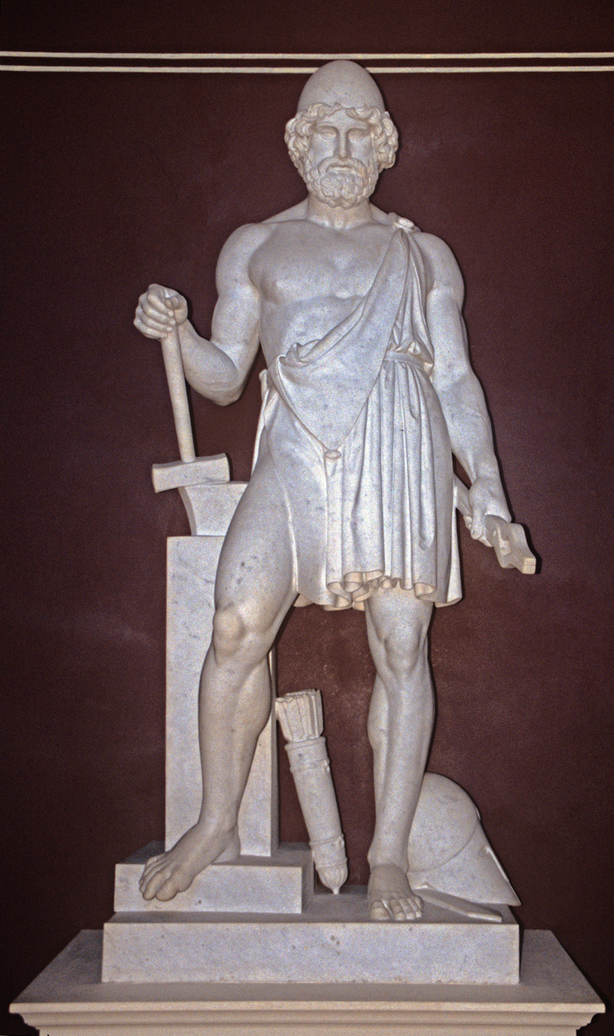 Vulcan (1838) by Herman Wilhelm Bissen (1798-1868). Sculpture in the Thorvaldsens Museum, Copenhagen.